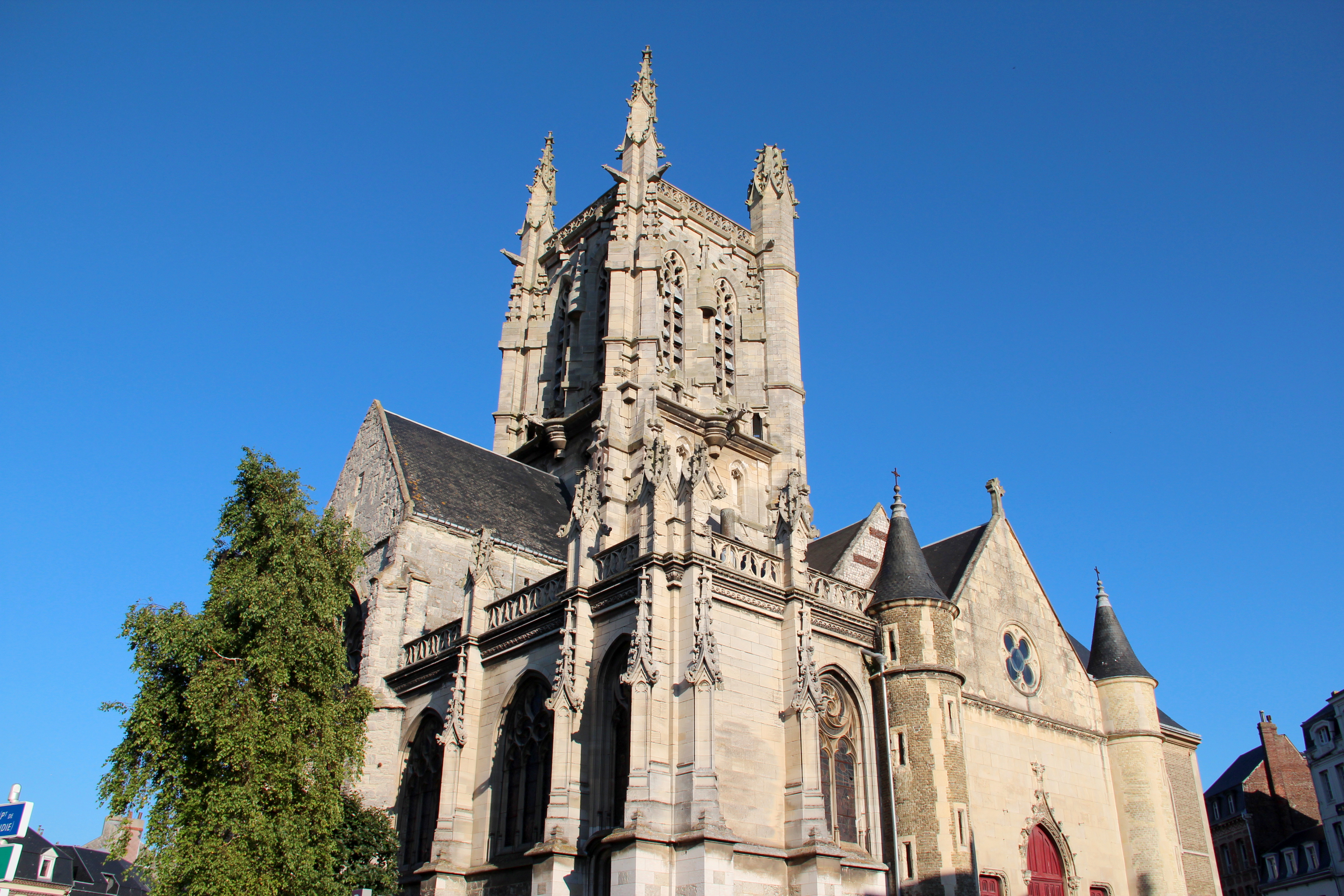 The Saint-Étienne Church of Fécamp.